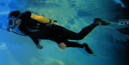 A Scuba diver in a pool. Public domain from NOAA. The diver is wearing a full length black wetsuit. He is using a full face mask from AGA and a twin 6 liter 300 bar tank also from AGA.